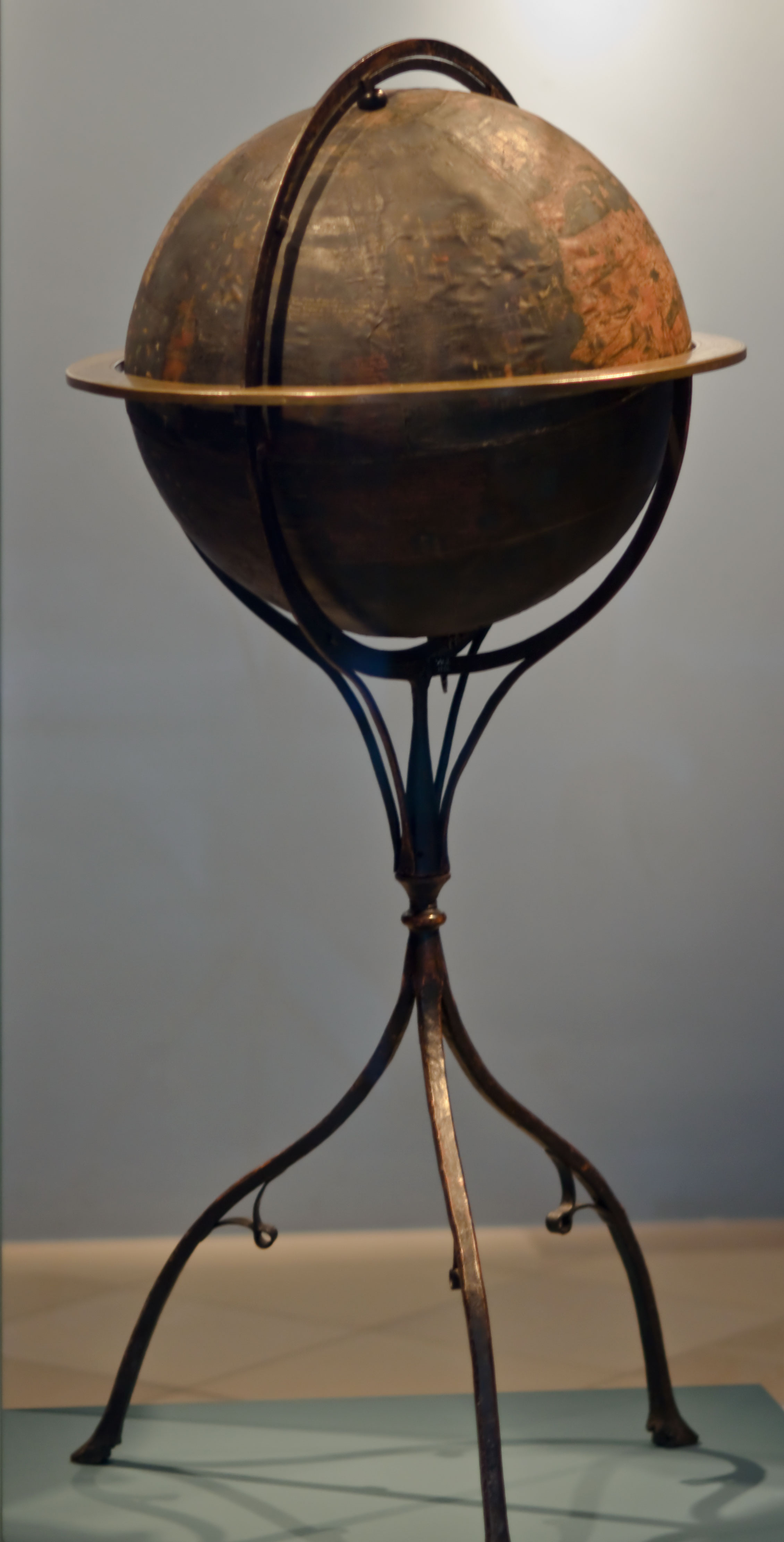 The "Erdapfel" of Martin Behaim is the oldest surviving terrestrial globe. The Americas are not yet included. 1491-1493. Germanisches Nationalmuseum, Nuremberg.